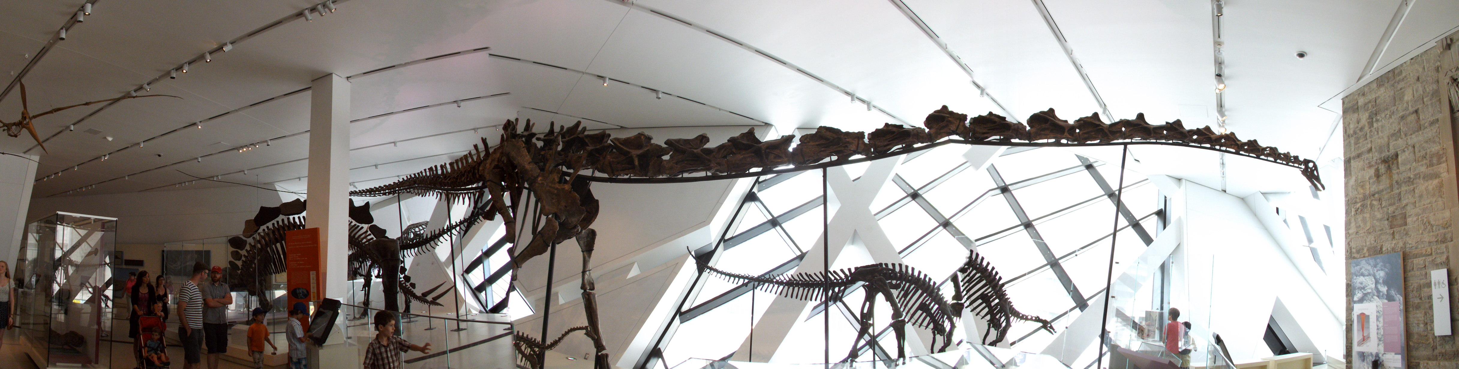 Panoramic of Barosaurus